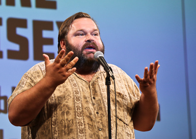 Mike Daisey at the Emergency Forum at Cooper Union.